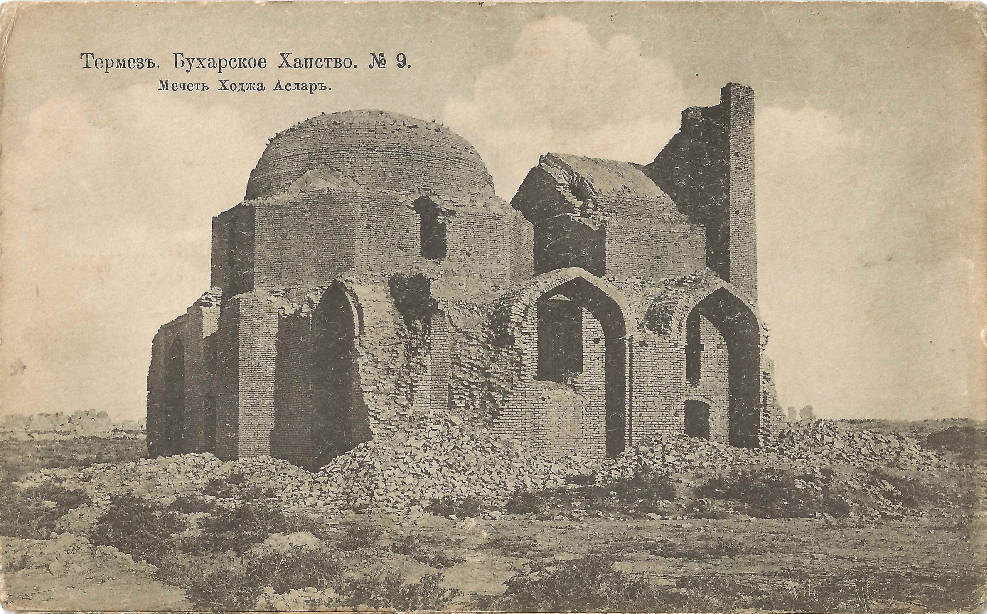 The ruines of the mosque Hodja Aslar in Termez in the district of Bukhara in Uzbekistan, 1913.